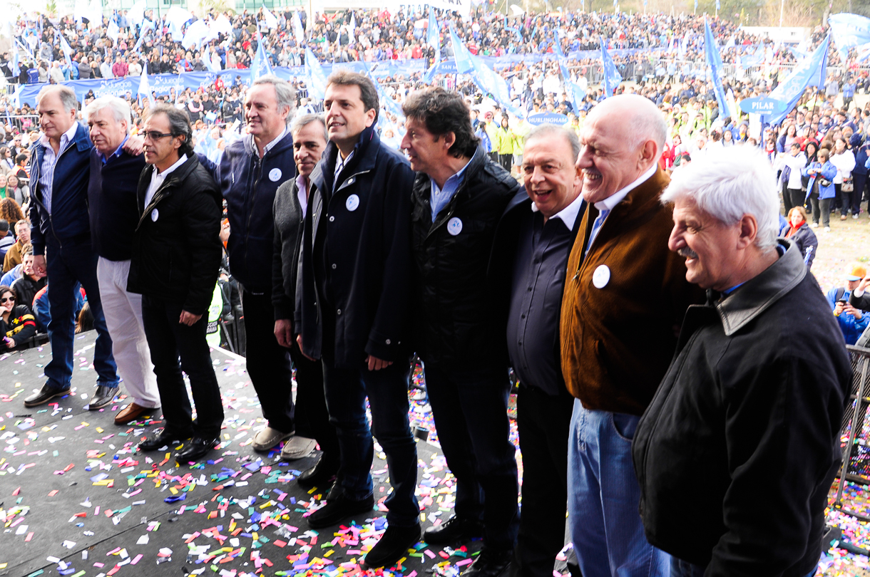 Sergio Massa, mayor of Tigre and lead Chamber of Deputies candidate for the Renewal Front ticket, is joined in a campaign event by fellow Greater Buenos Aires-area mayors. From left: two unnamed officials, Sandro Guzmán (mayor of Escobar), Joaquín de la Torre (San Miguel), Jesús Cariglino (Malvinas Argentinas), Sergio Massa (Tigre), Gustavo Posse (San Isidro), Humberto Zúccaro (Pilar), Luis Acuña (Hurlingham), and Luis Andreotti (San Fernando).